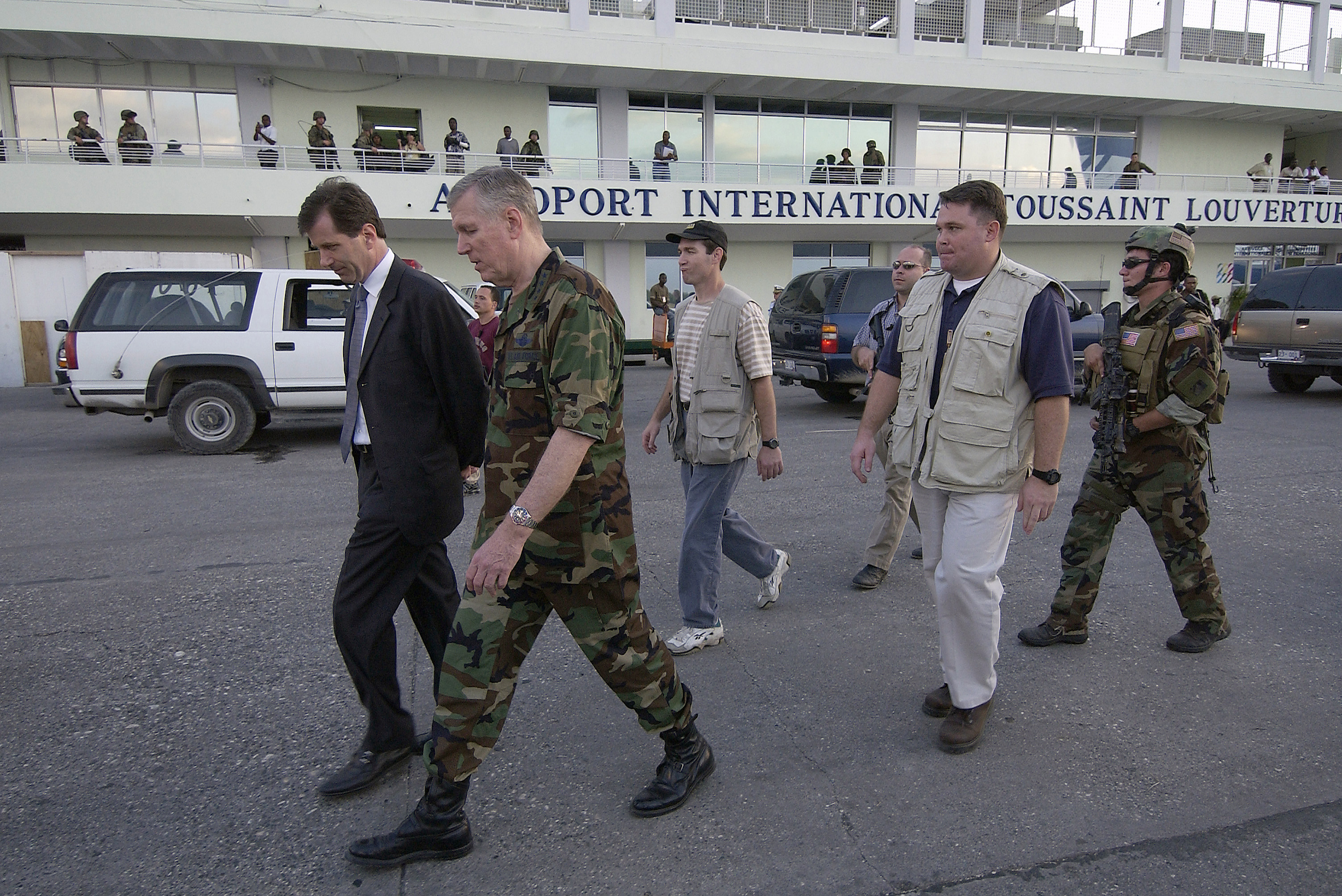 U.S. Ambassador to Haiti James Brendan Foley with U.S. Chairman of The Joint Chiefs of Staff General Richard B. Myers, during General Myers visit to Haiti to inspect the U.S. Troops deployed to Haiti as part of The Peacekeeping Missions, March 13, 2004.